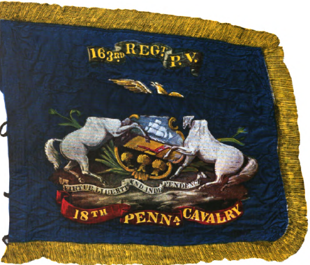 18th Pennsylvania Cavalry battle flag as found when recaptured